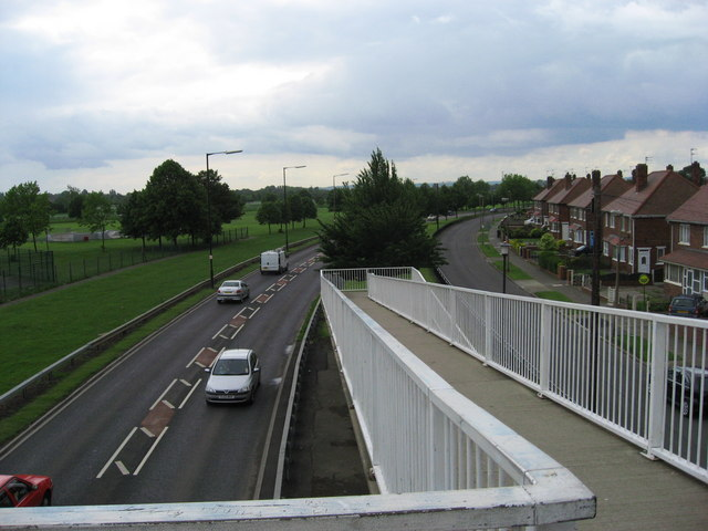 Leger Way Appropriately named part of the A18 bordering Doncaster racecourse. Lancaster Avenue is the road by the housing estate on the right.